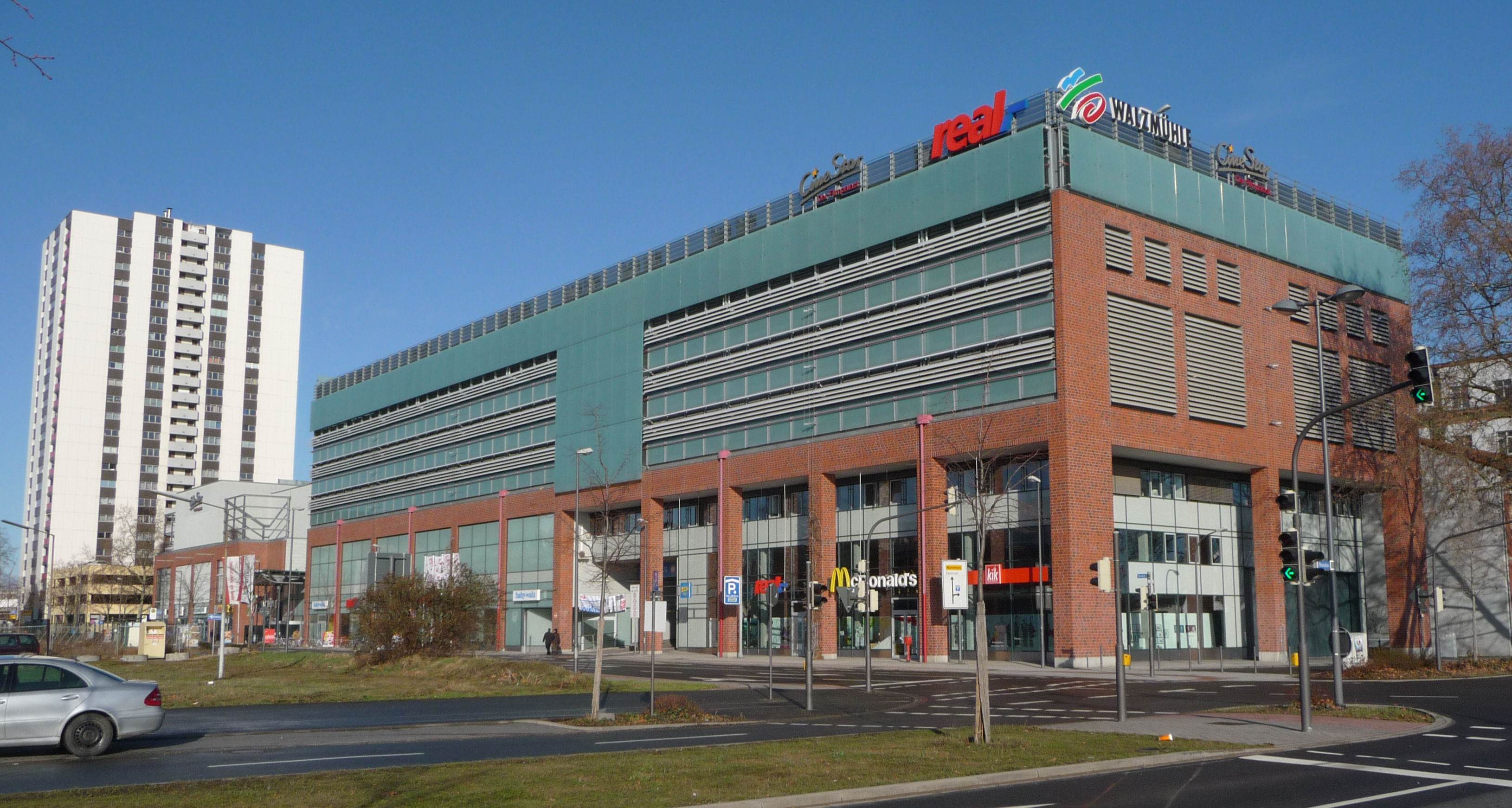 stores in Ludwigshafen, Germany